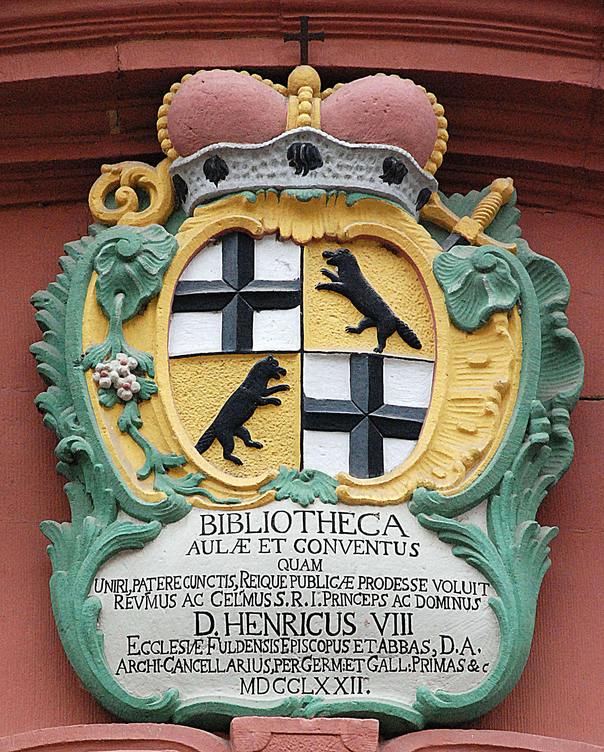 Heinrich VIII coat of arms for the Library (now the Theological Faculty, Fulda, Bibliothek der Theologischen Fakultät - Stuckwerk über dem Eingang.